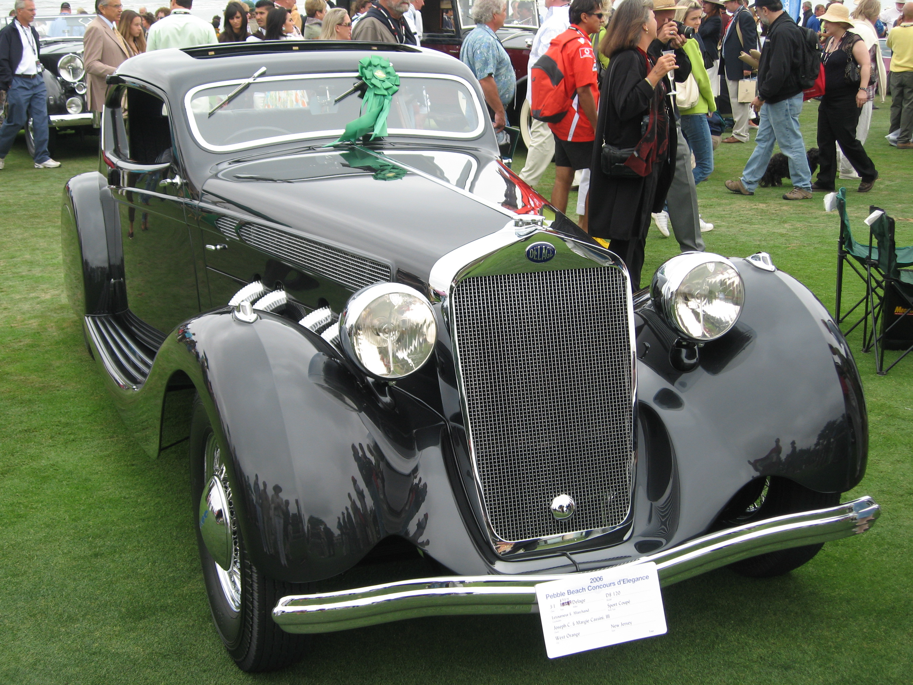 1937 Delage D8-120 Coupé Sport, coachwork by Letourneur & Marchand at Pebble Beach Concours d'Elegance 2006